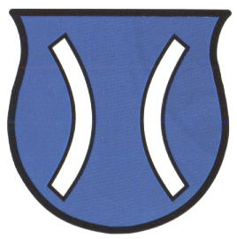 Coat of arms of the City Artern/Unstrut in Thuringia